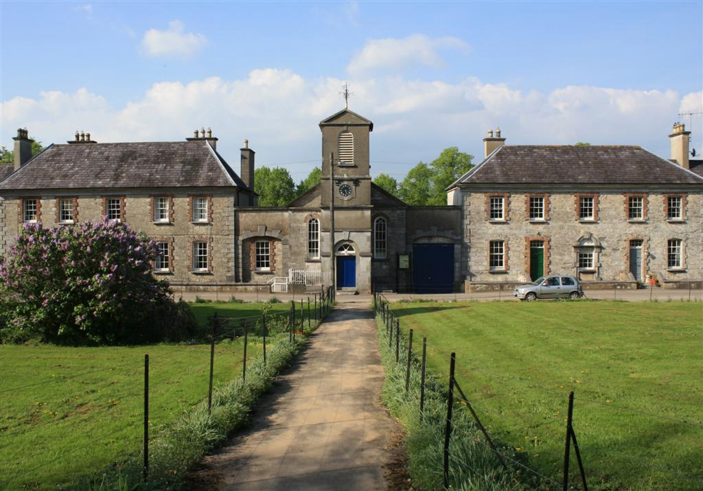 Kingston College, Mitchelstown